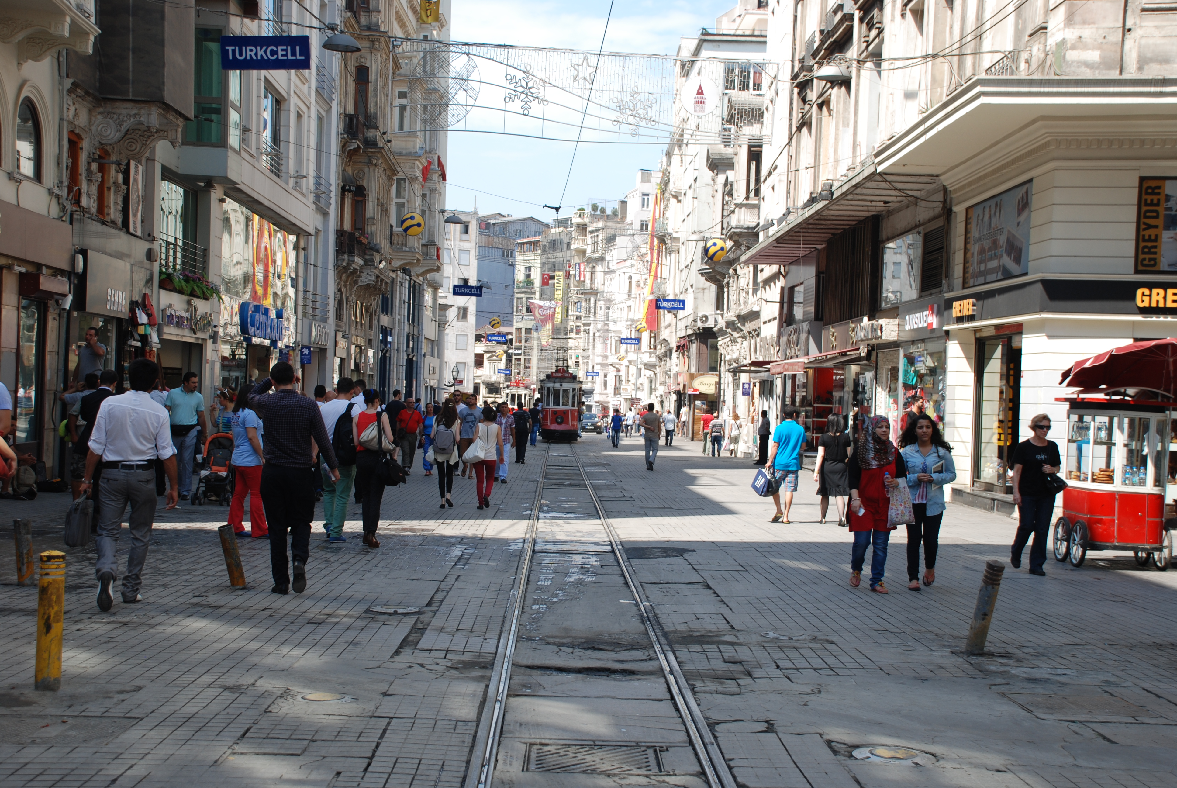 istiklal st, istanbul